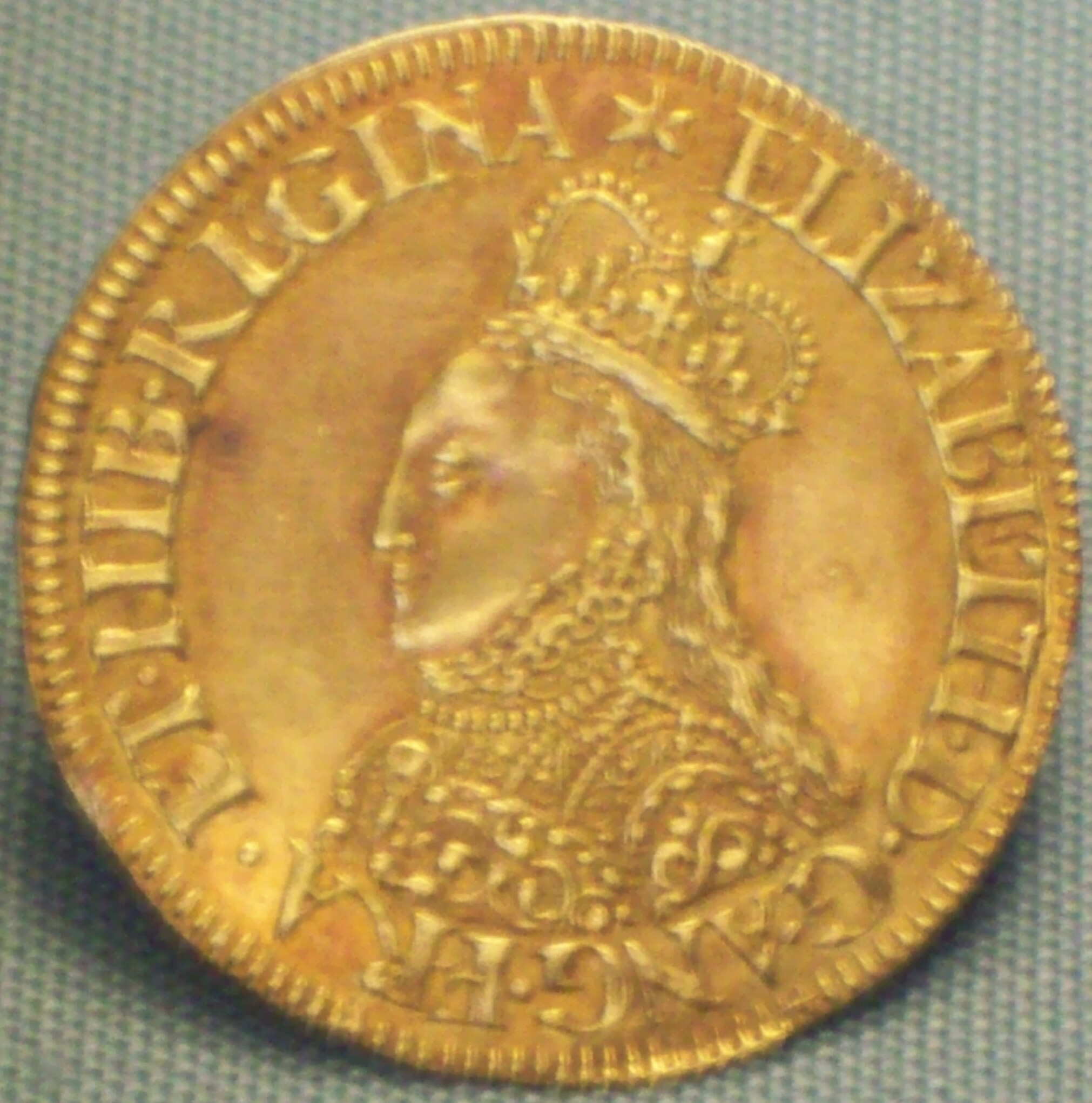 Gold Half-Pound coin of Queen Elizabeth I (1560-61), one of the first English machine-produced milled coins. Example held in the British Museum, Money Gallery (Room 68). Inscription: ELIZABETH DG ANG FRA ET HIB REGINA